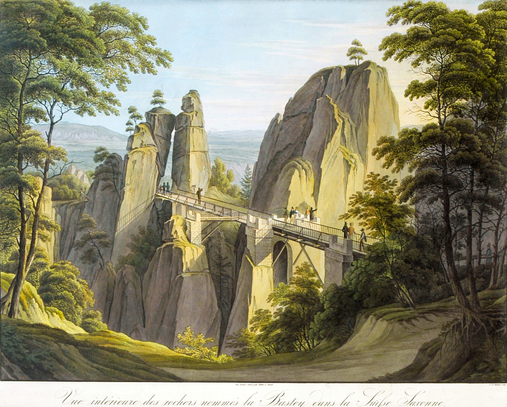 The Bridge link the rock "Felsentor" with the "Bastian rock". In 1851 the bridge was replaced by the present "Bastei Bridge" made from sandstone. Today is the Bastei and the "Bastei bridge" a landmark in the Saxon Switzland in Germany